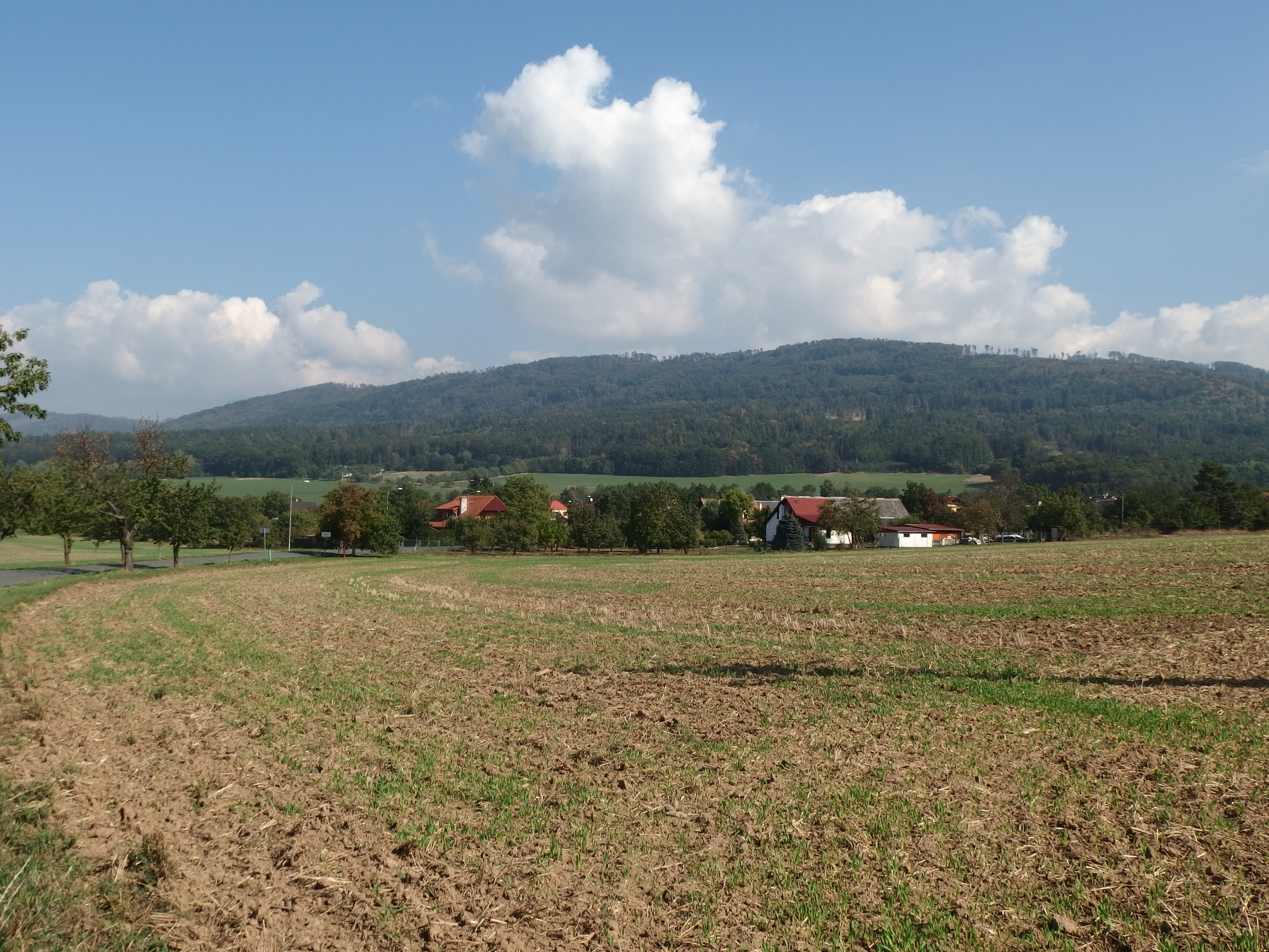 Řídeč, Olomouc District, Czech Republic.